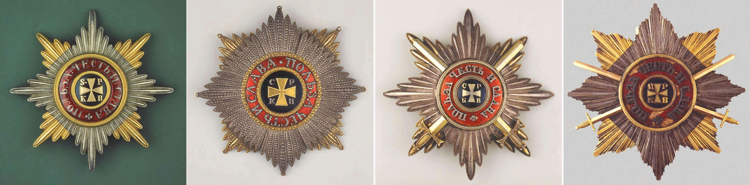 Order of St Vladimir